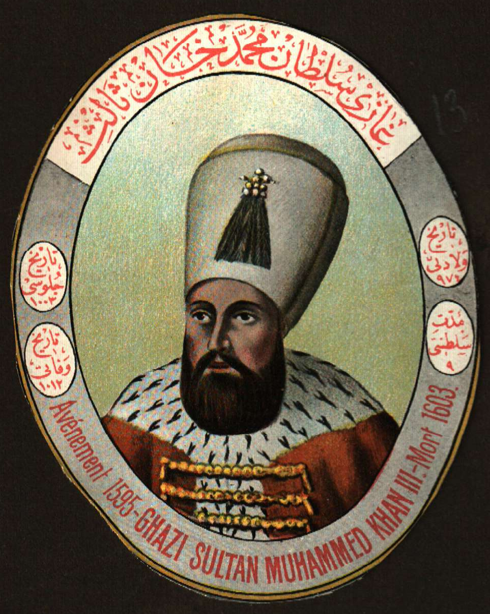 Mehmed III